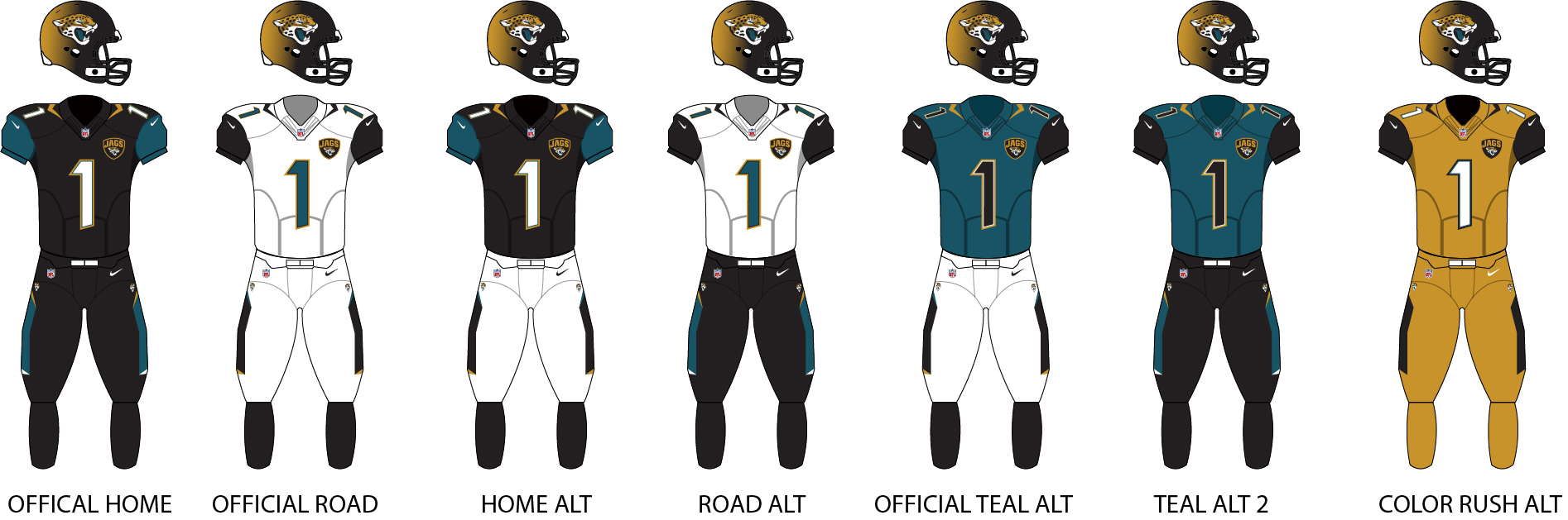 Jacksonville Jaguars 2015 Nike Uniforms